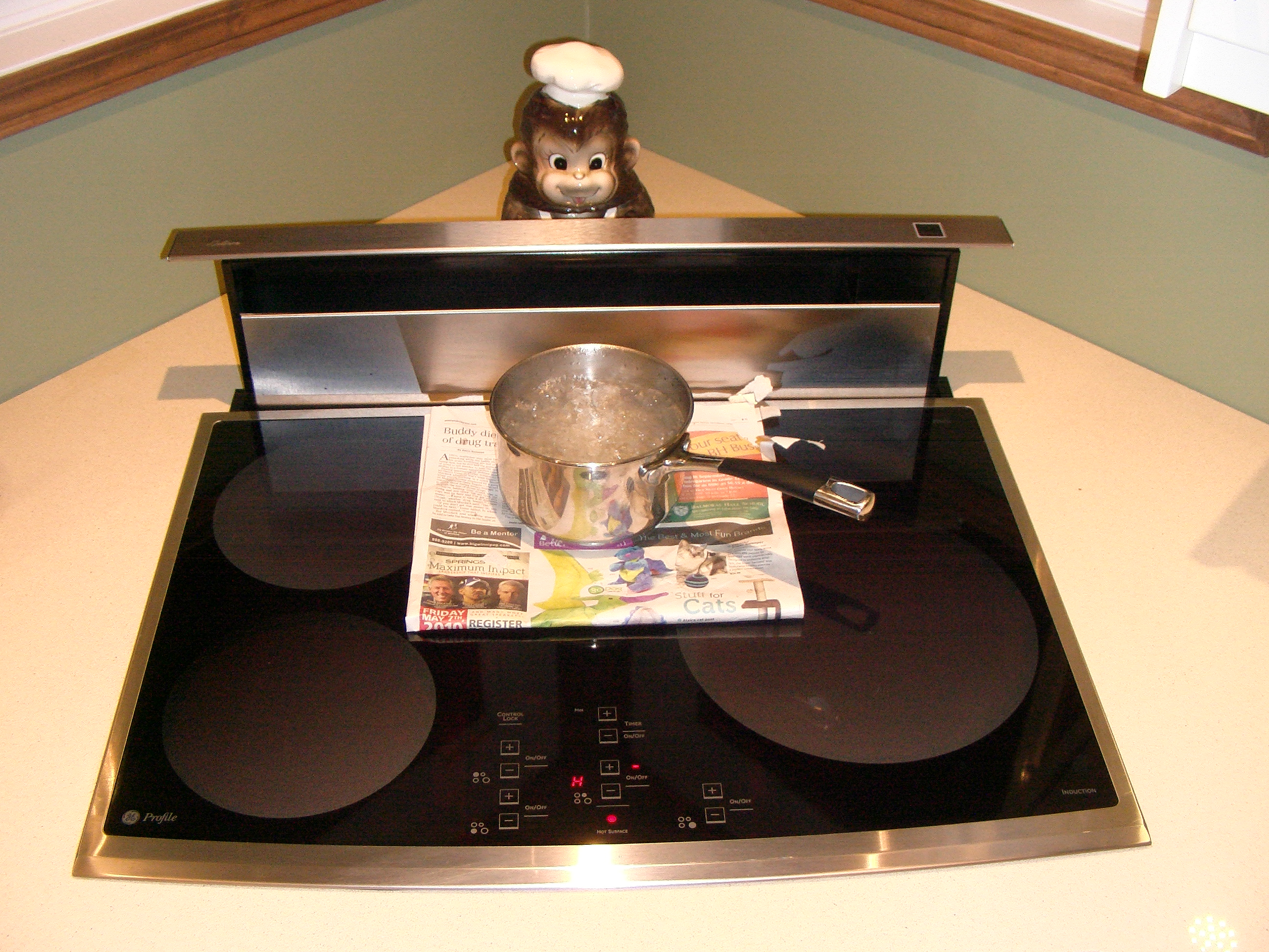 An induction cooktop boiling water through sheets of newsprint. On the back, a hidden exhaust hood and a cheeky little monkey dressed as a cook.